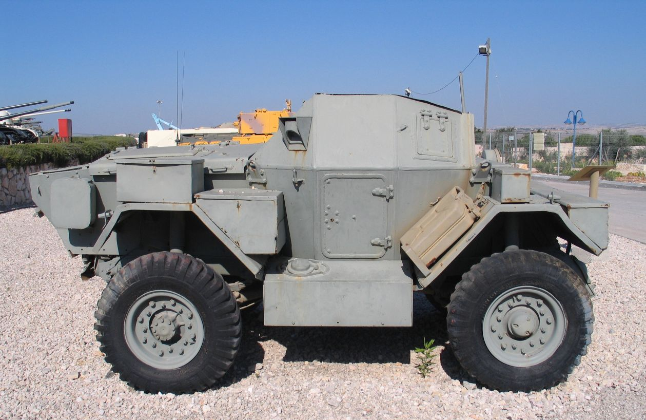 Description: Ford Lynx scout car in Yad la-Shiryon Museum, Israel. 2005. Source: Photo by me, User:Bukvoed.